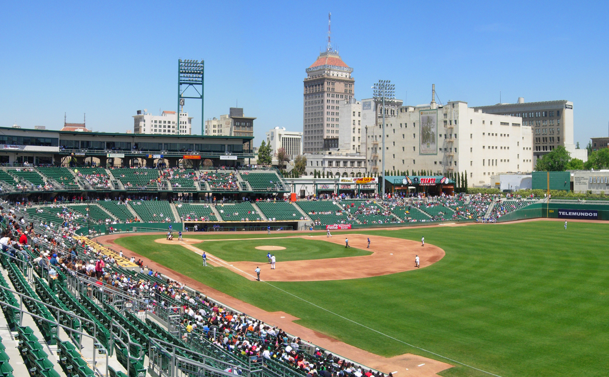 Downtown Fresno, third most populated city in Northern California, skyline from Chukchansi Park